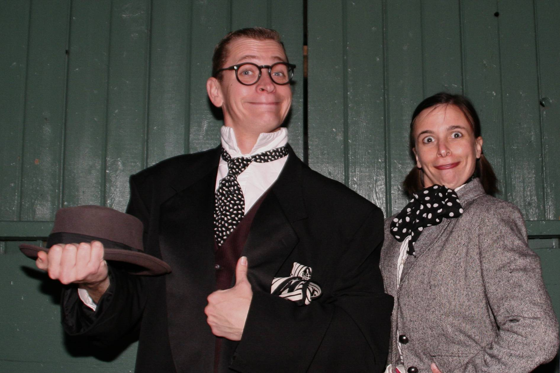 Ben Schave and Caitlin Reilly, comedy duo Schave & Reilly performing at Steam Punk Futures of the Past at South by Southwest (sxsw) festival in Austin in 2007.